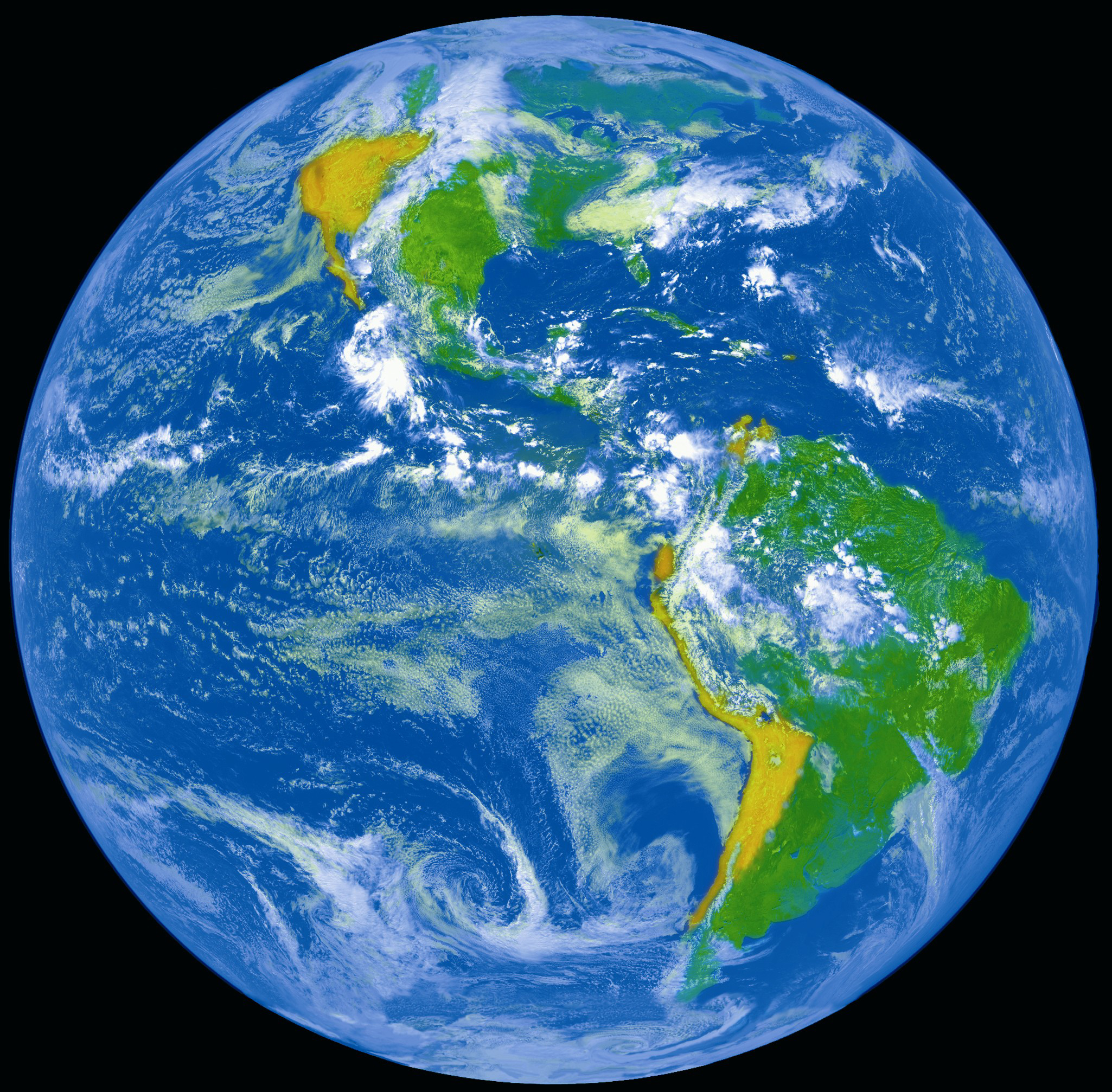 Though all looks peaceful in this image of the big blue marble taken by the GOES 8 weather satellite, one of two weather satellites designed and built by NASA but operated by the National Oceanic and Atmospheric Administration, statistically the United States has the world's most violent weather. In a typical year, the U.S. will endure some 10,000 violent thunderstorms, 5,000 floods, 1,000 tornadoes and several hurricanes. Improving weather prediction, therefore, always has been a top priority for meteorologists. Since its launch in 1994, GOES 8 has become indispensable for imaging clouds and measuring cloud heights and information scientists need for three-dimensional weather models. A companion weather satellite, GOES 10, was launched in 1997.